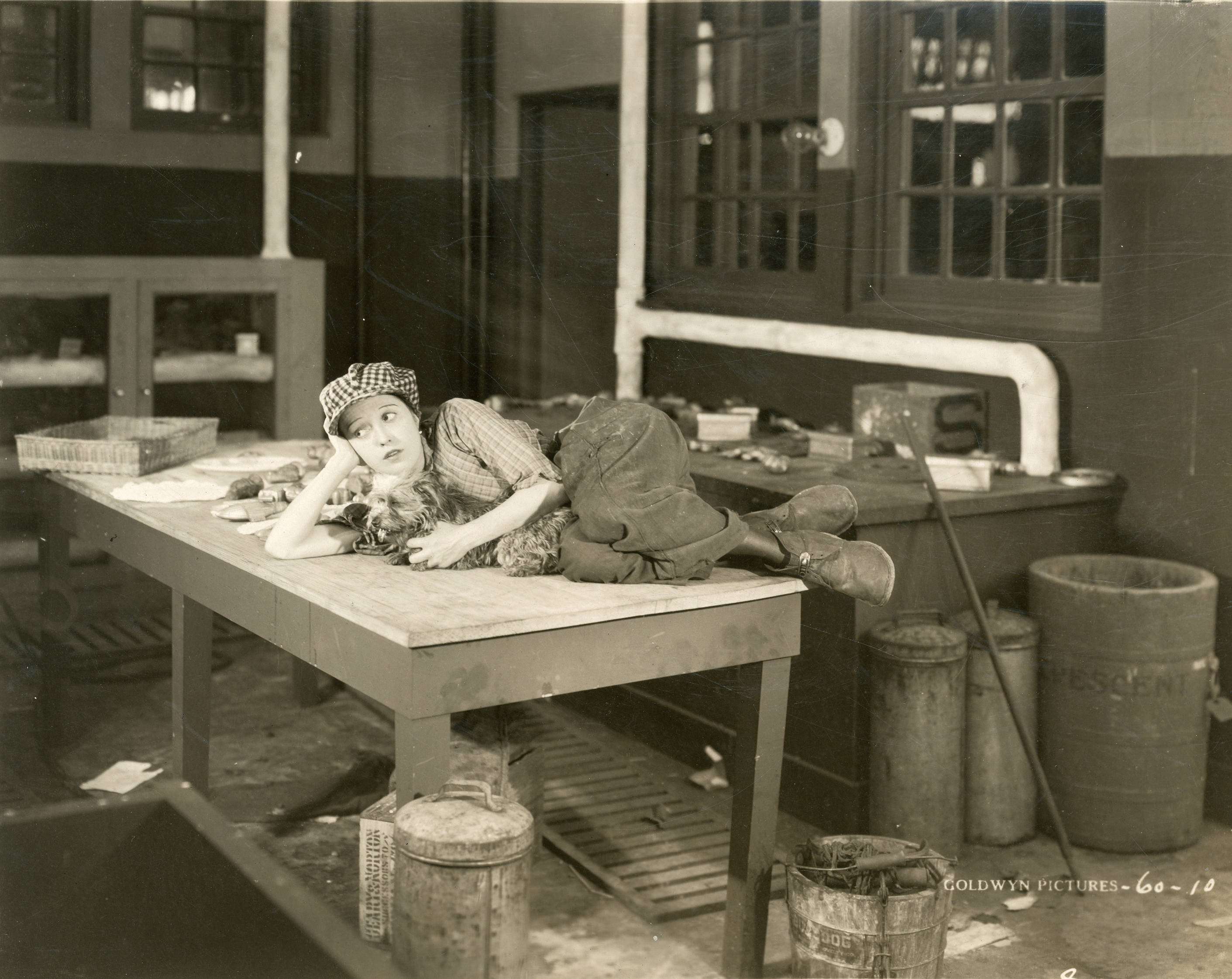 A scene from the American comedy film Upstairs (1919), which played at the Clemmer Theater, Seattle. Date stamped Nov. 26, 1919. Includes Mabel Normand. Subjects: motion pictures, actresses